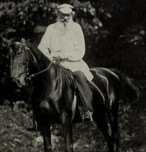 Count Leo Tolstoy on a horse